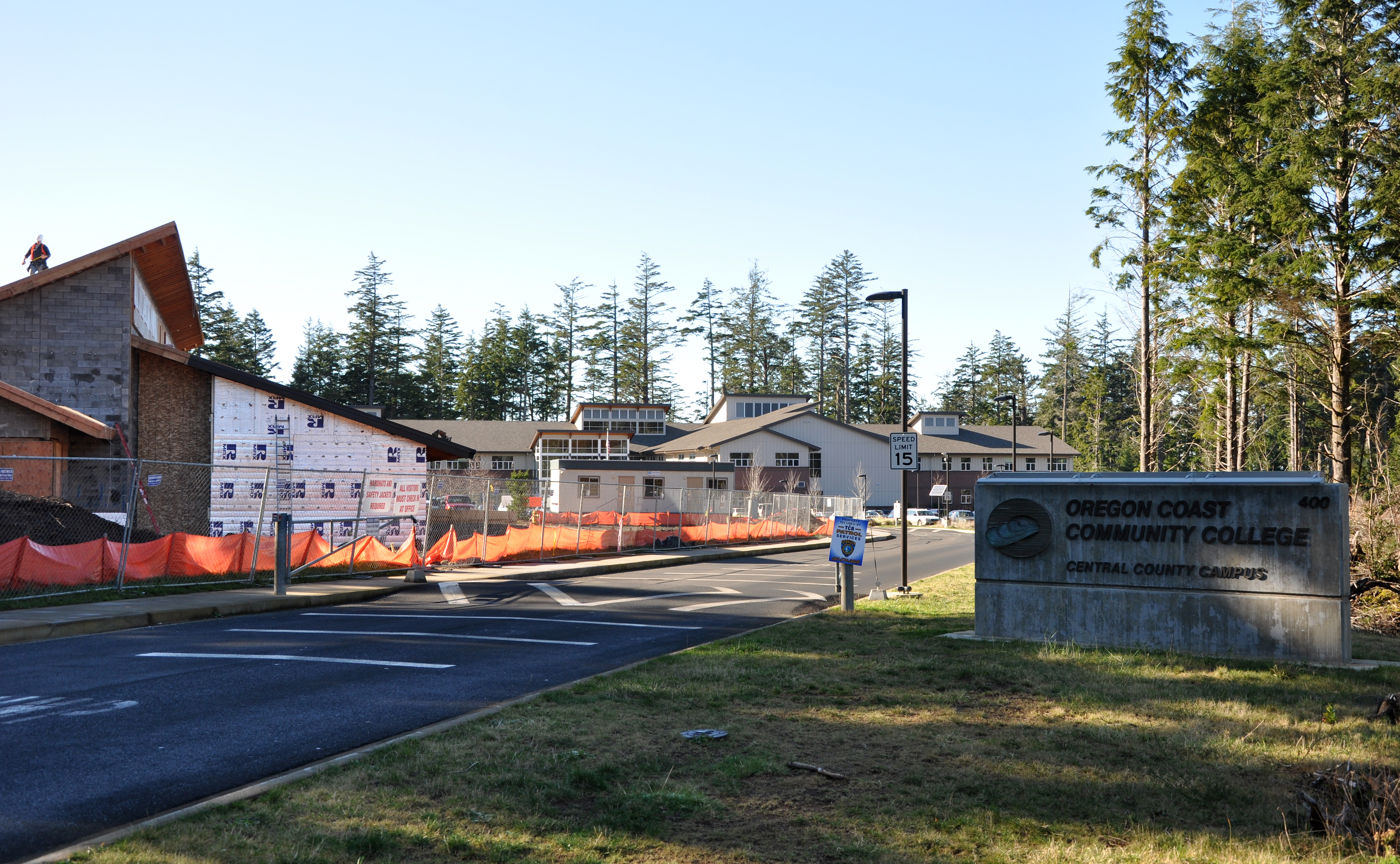 Entrance to Oregon Coast Community College campus in Newport in the U.S. state of Oregon